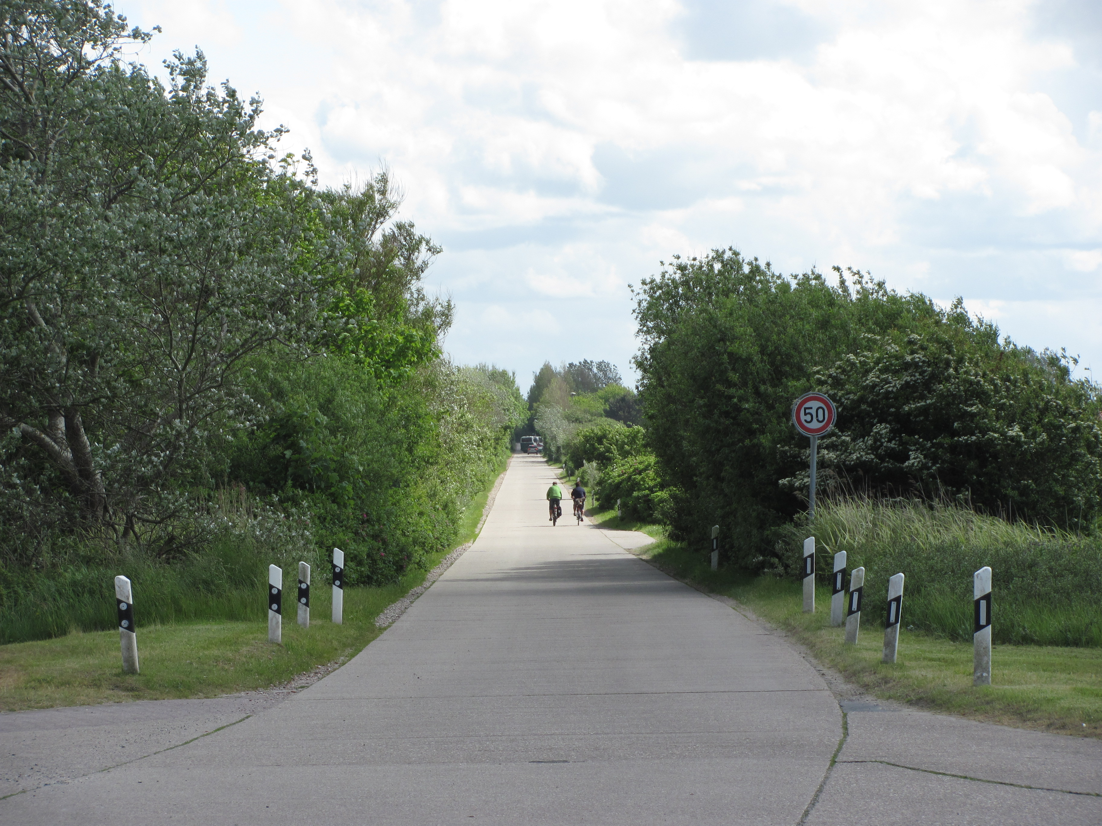 Former alignment of Schlüter-line. Today: Ostfriesenstrasse